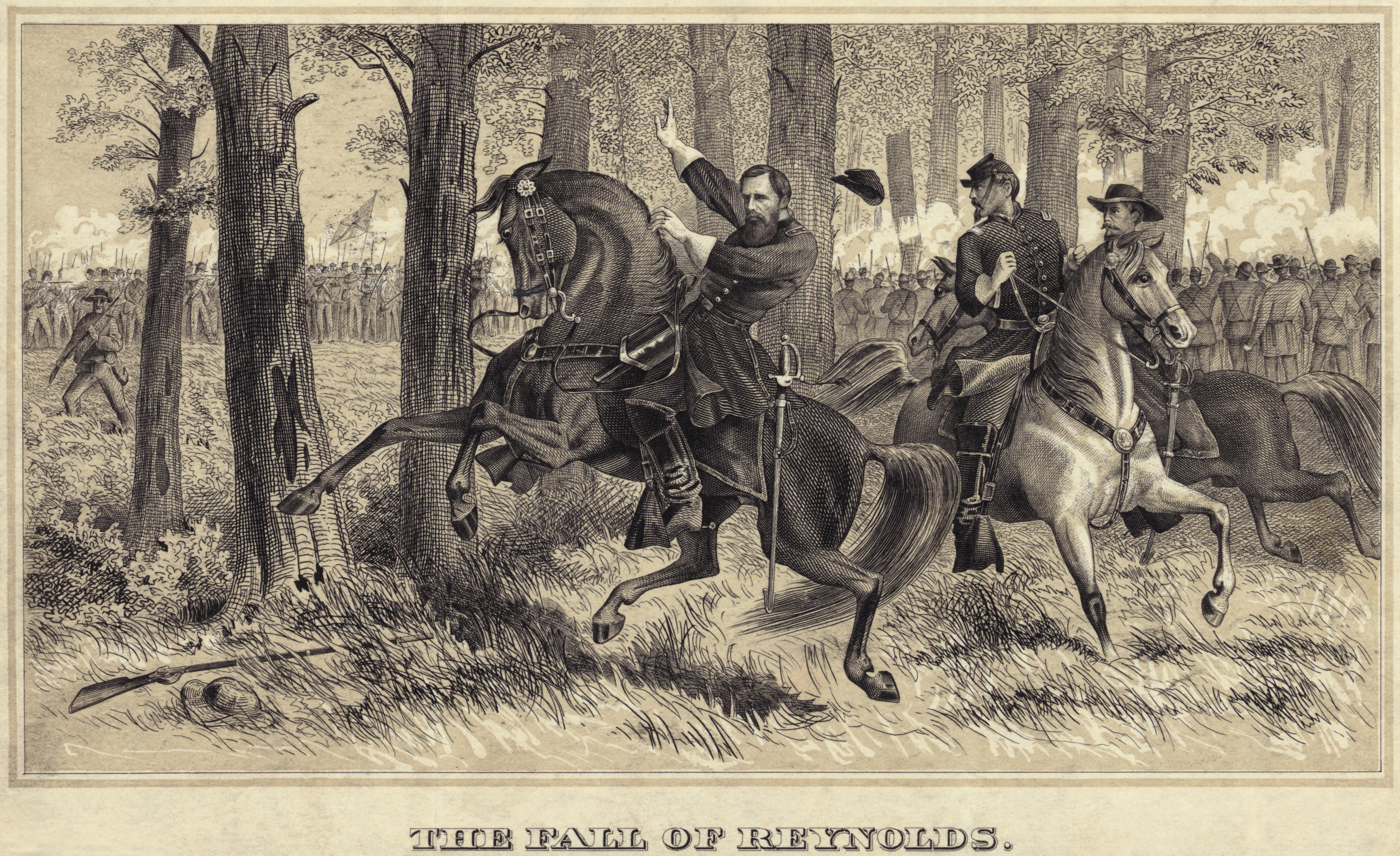 "The Fall of Reynolds" - The death of John Fulton Reynolds at the Battle of Gettysburg in 1863, depicted by Alfred Rudolph Waud.